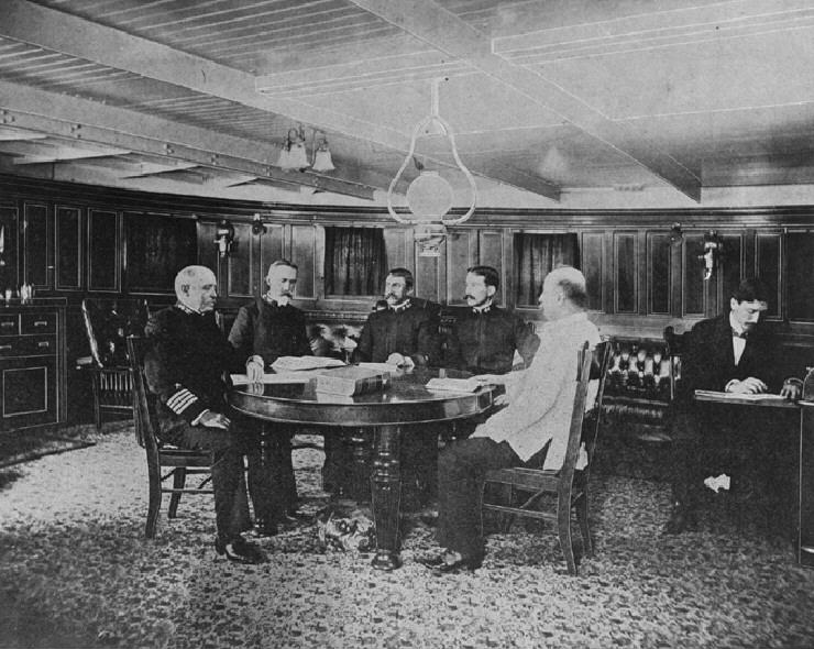 USS Maine Court of Inquiry, 1898. Members of the Navy Court of Inquiry examining Ensign Wilfrid V. Powelson, on board the U.S. Light House Tender Mangrove, in Havana Harbor, Cuba, circa March 1898. Those seated around the table include (from left to right): Captain French E. Chadwick, Captain William T. Sampson, Lieutenant Commander William P. Potter, Ensign W.V. Powelson, Lieutenant Commander Adolph Marix. Photograph copied from Uncle Sam's Navy, 12 April 1898. Original caption: "Photo # NH 46764 MAINE Court of Inquiry" — removed caption